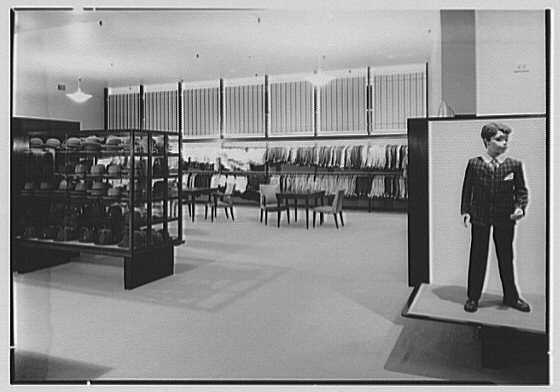 Title: De Pinna, business at 5th Ave. and 52nd St., New York City. Abstract/medium: Gottscho-Schleisner Collection (Library of Congress) Physical description: 1 negative